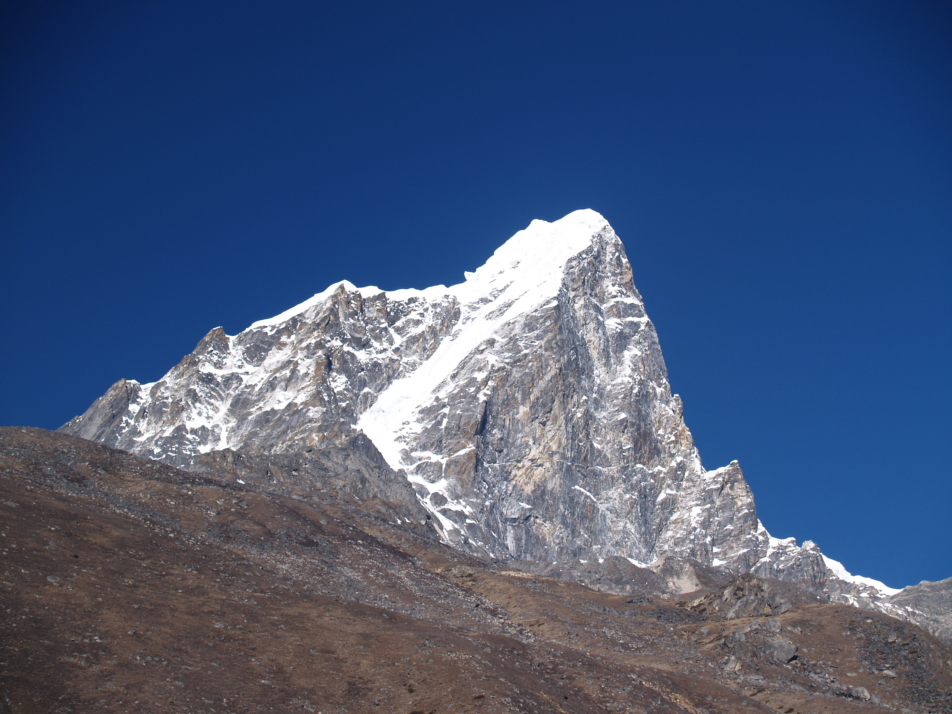 south face of Taboche (6501 m) seen from Periche, Khumbu, Nepal